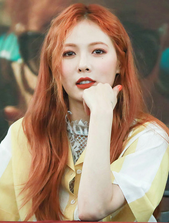 HyunA at a fansign on May 12, 2017